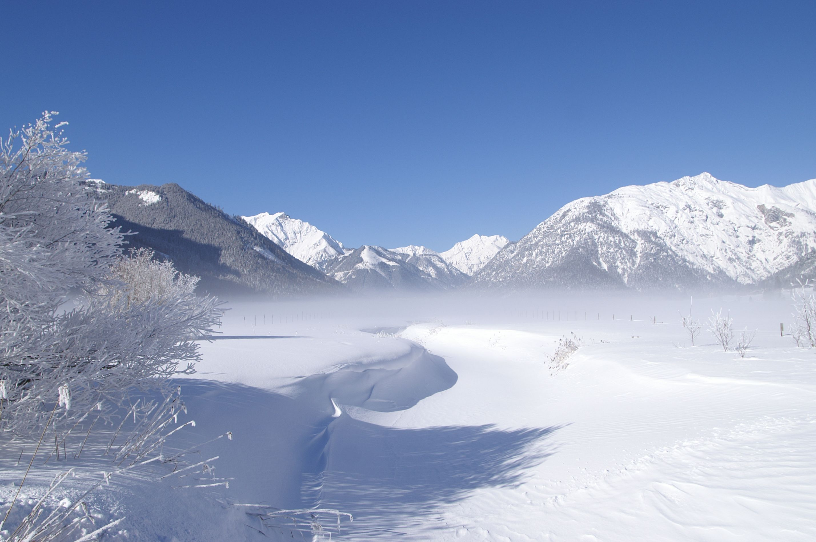 Winter on the Achensee in Tyrol. The view depends on Pertisau.